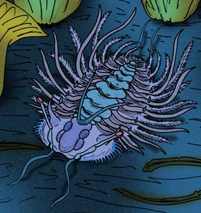 Crop of file in filename